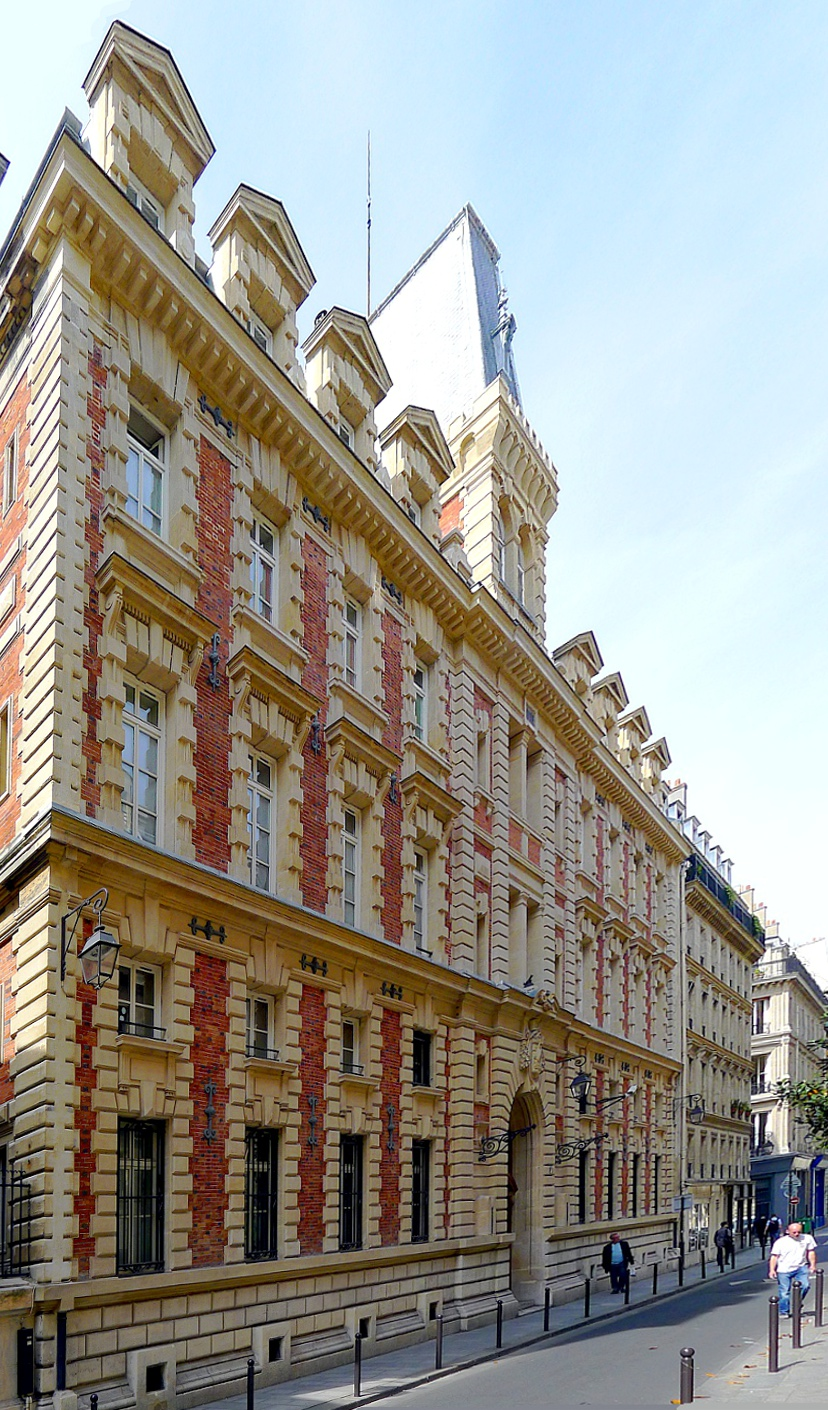 Notre-Dame-des-Victoires street - Paris